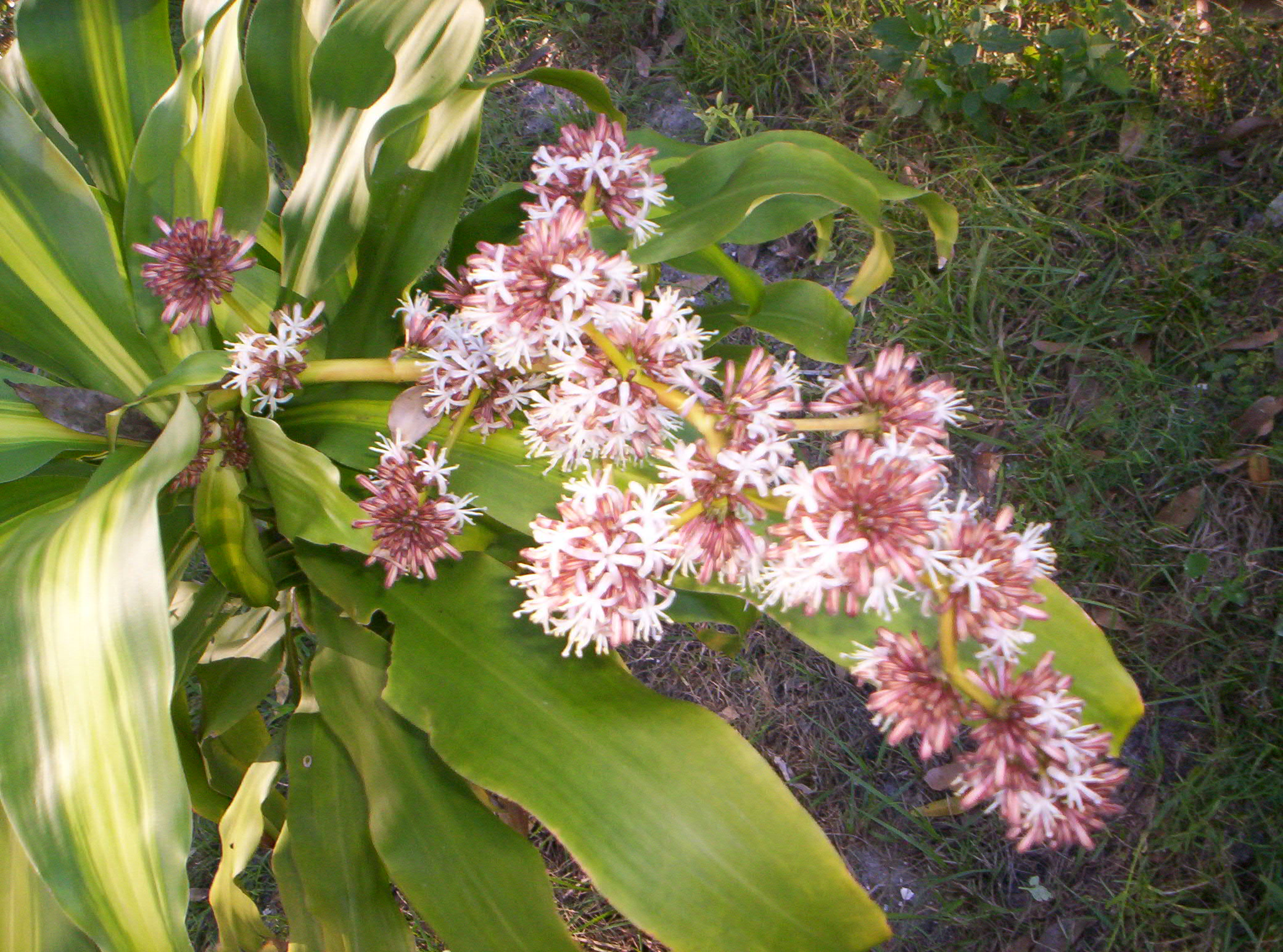 Dracaena fragrans Massangeana in bloom at Cocoa, Florida, USA.